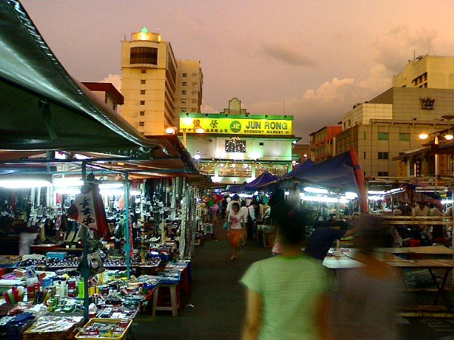 Sibu Night Market View at Jalan Market (between Jalan Lintang and Jalan Bengkel) before relocation to Butterfly Garden at Cross Road.